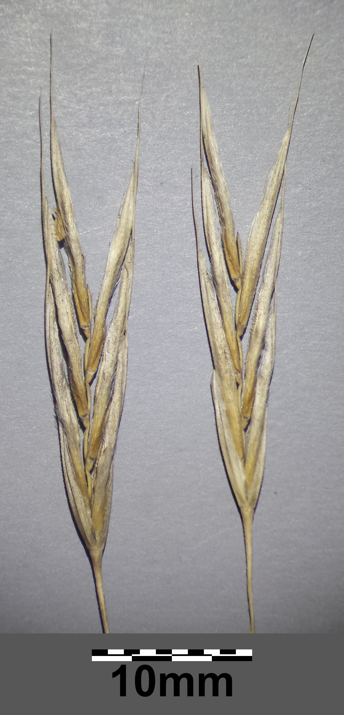 Spikelets Taxonym: Bromus ramosus ss Fischer et al. EfÖLS 2008 ISBN 978-3-85474-187-9 Location: Praunsberger Wald near Niederhollabrunn, district Korneuburg, Lower Austria - ca. 350 m a.s.l. Habitat: wood